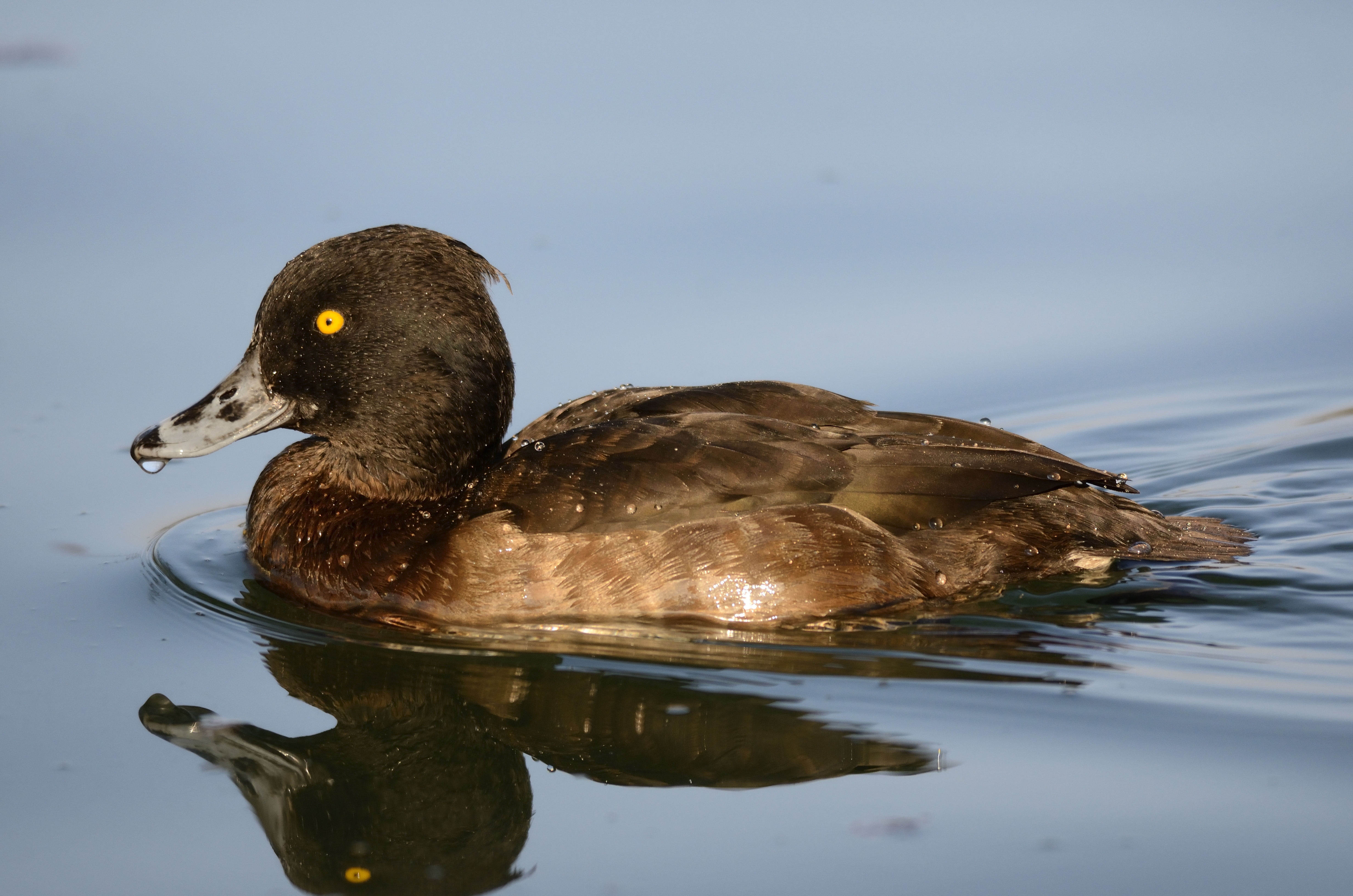 Tufted duck female